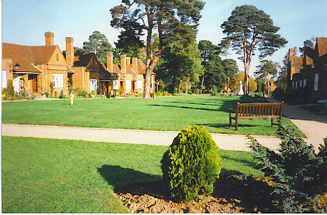 Whiteley Village. An octagonally-shaped, planned, village just off the Seven Hills Road.